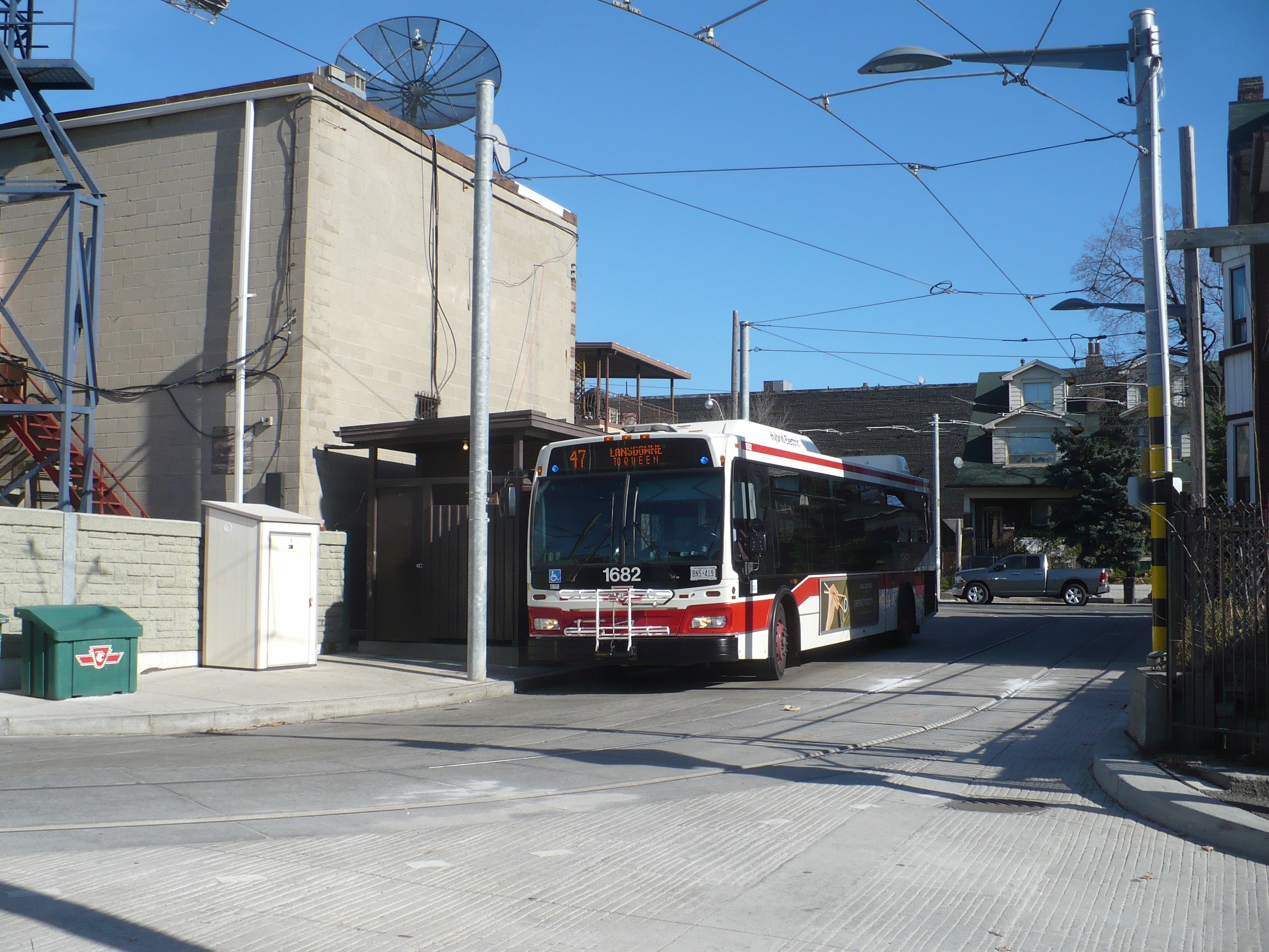 Earlscourt Loop for TTC streetcars in Toronto. Bus route 47 also terminates here